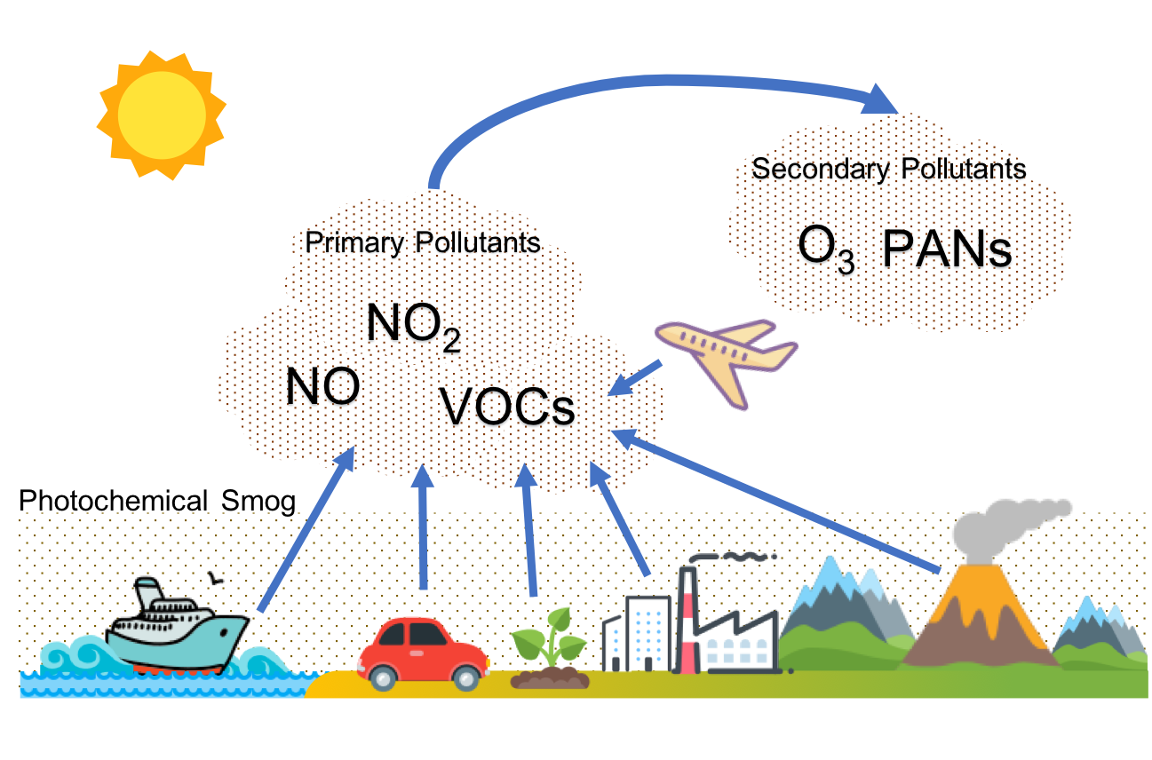 The diagram is made by Li-Wei Chao. The icons are downloaded from